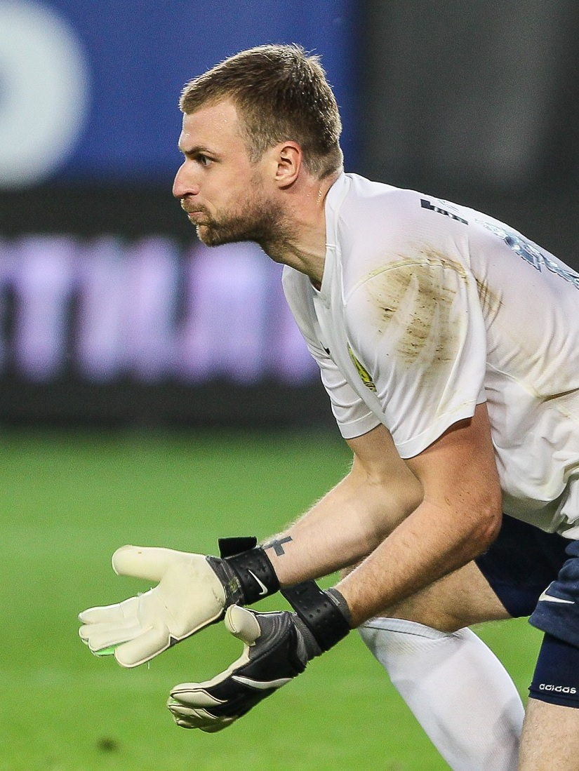 Illya Hawrylaw with FC Luch-Energiya Vladivostok in a game against FC Dynamo Moscow.